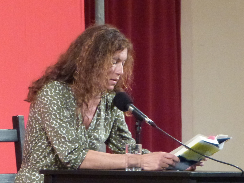 German writer and translator Anne Weber (Autorin) at the Erlanger Poetenfest 2012